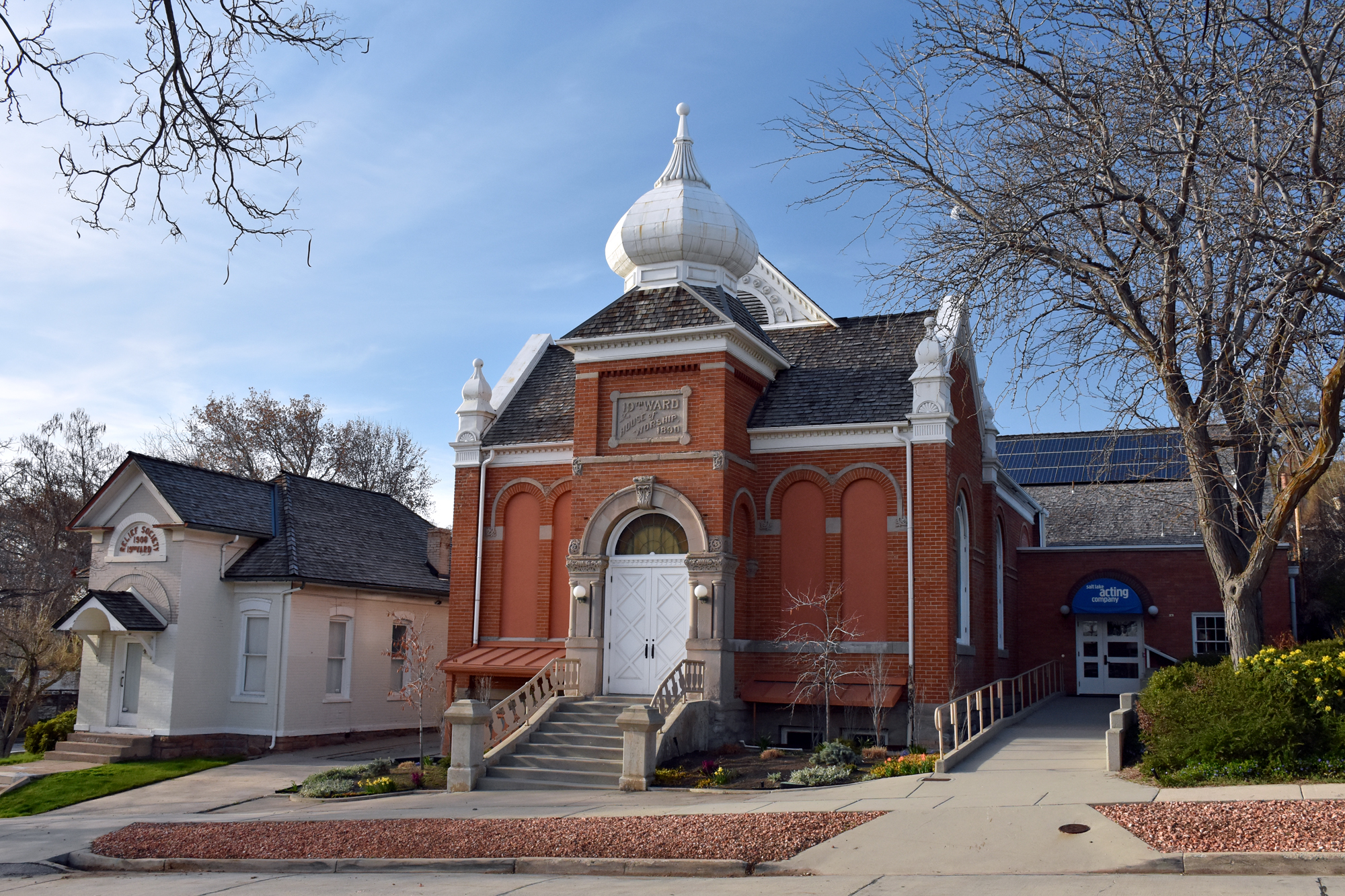 The former Salt Lake City Nineteenth Ward Meetinghouse and Relief Society Hall.